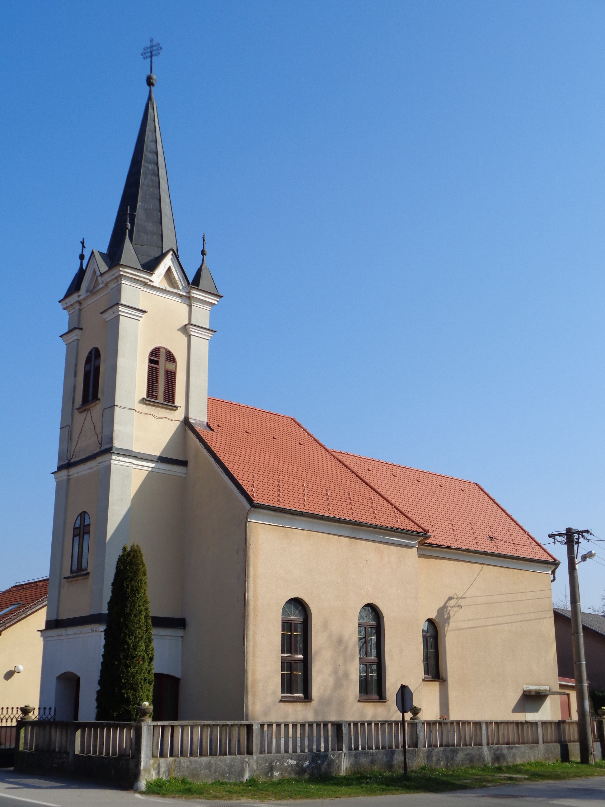 Saint Florian Church in Pribislavec village, Medjimurje County, Croatia